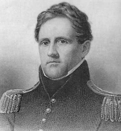 Winfield Scott As he appeared during the War of 1812.